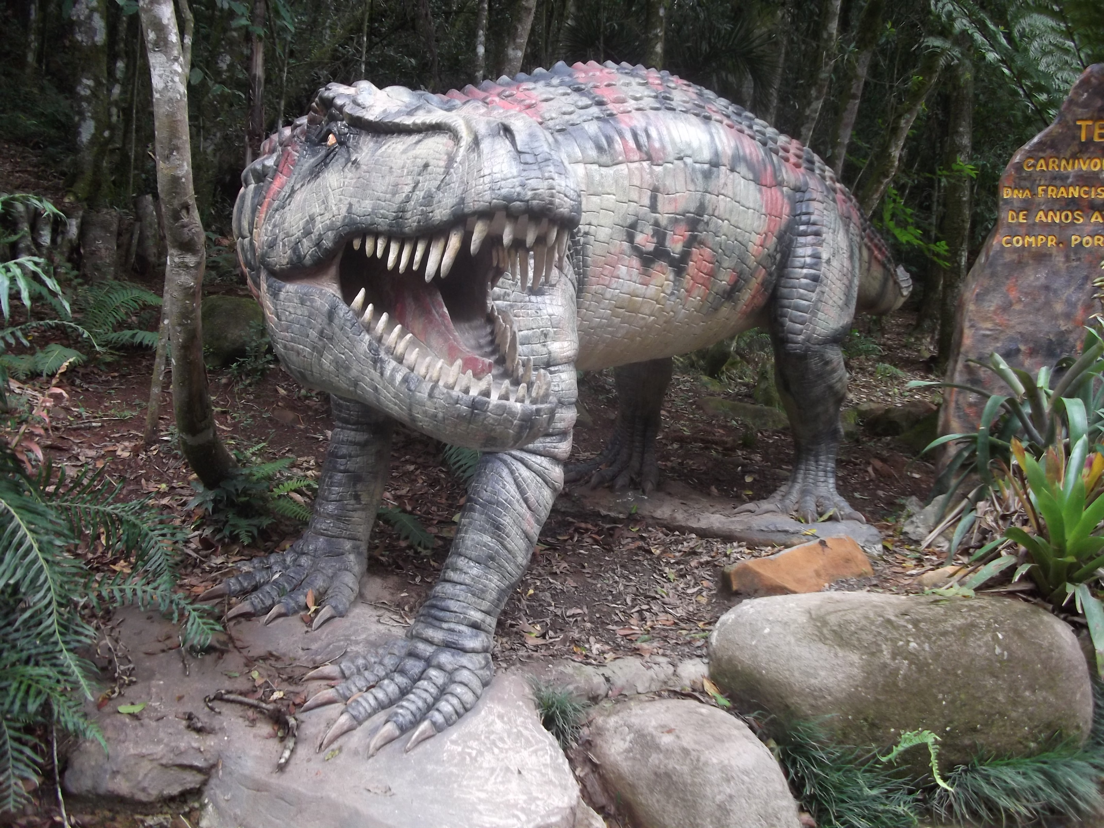 Thecodontia